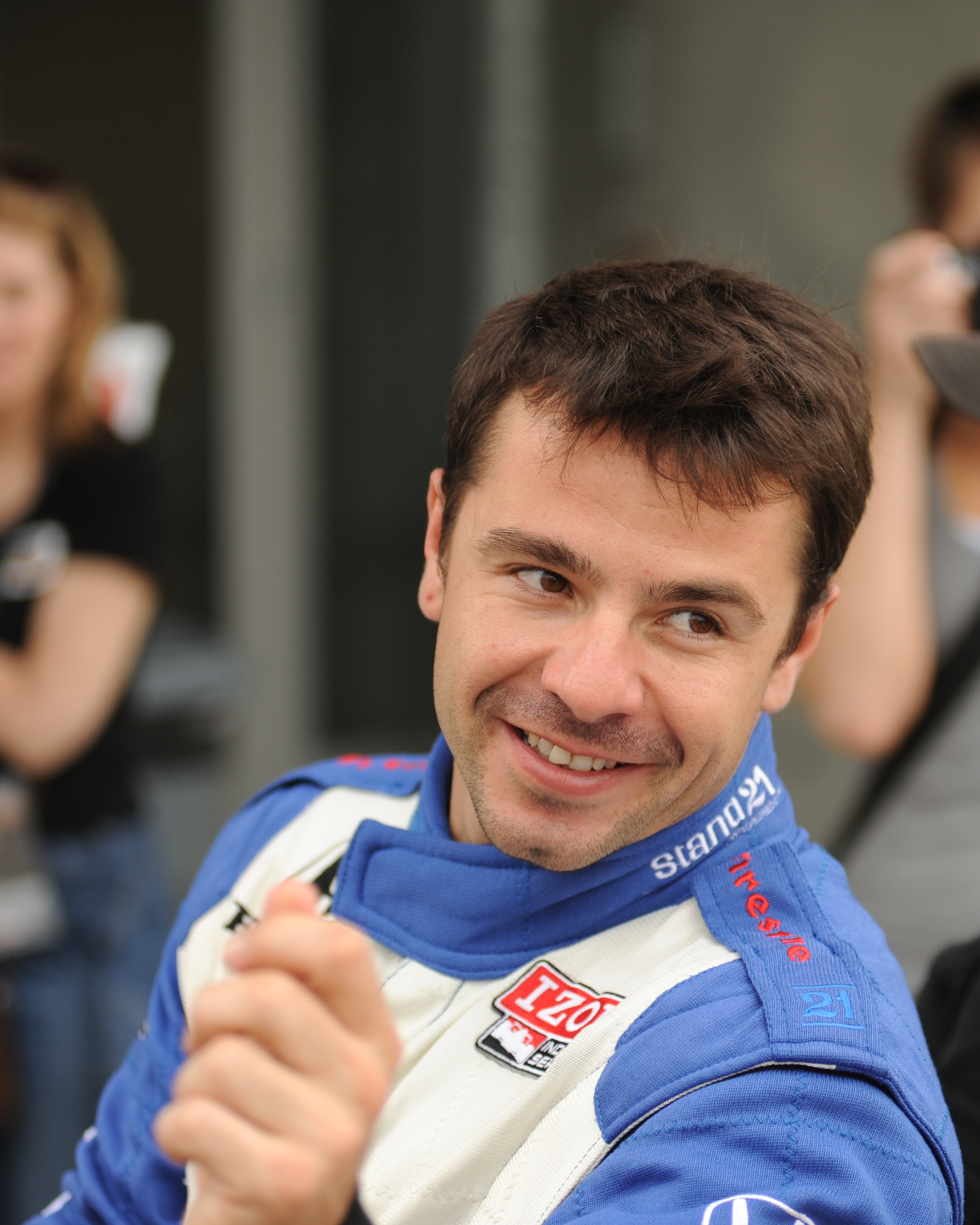 Oriol Servia at the Indianapolis Motor Speedway on the first day of qualifying for the 500.